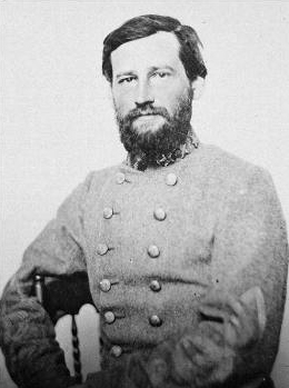 Stephen D. Lee, the youngest Confederate Lt. General, NPS